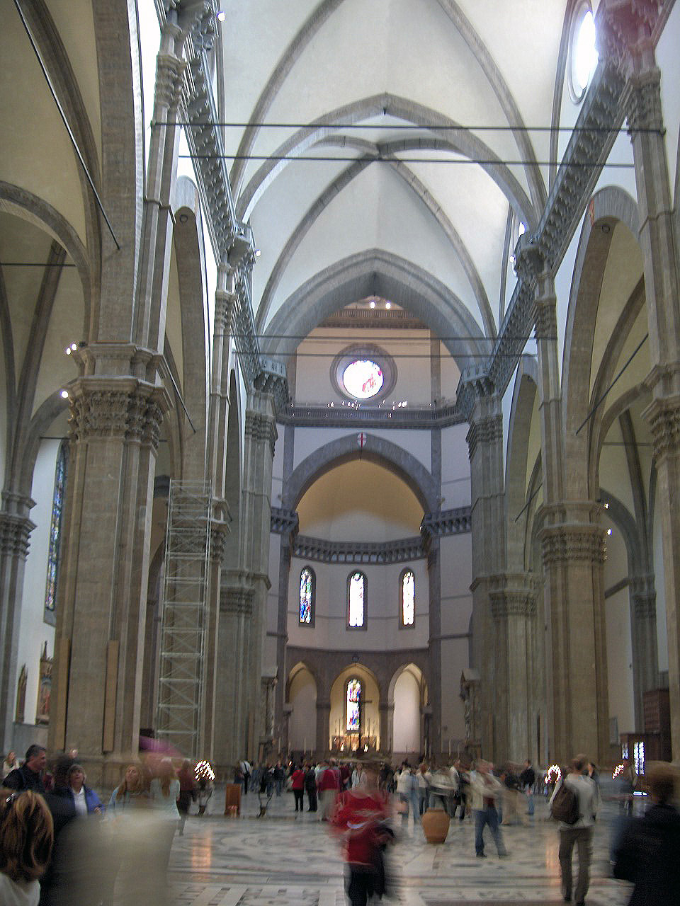 Nave of the cathedral (Santa Maria del Fiore duomo), in Florence, Italy. Own photo - photo made on 13 October 2005